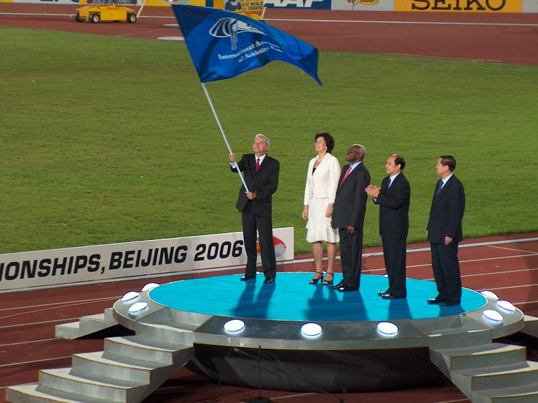 Mayor of Bydgoszcz Konstant Dombrowicz receive flag of Championship in Beijing.